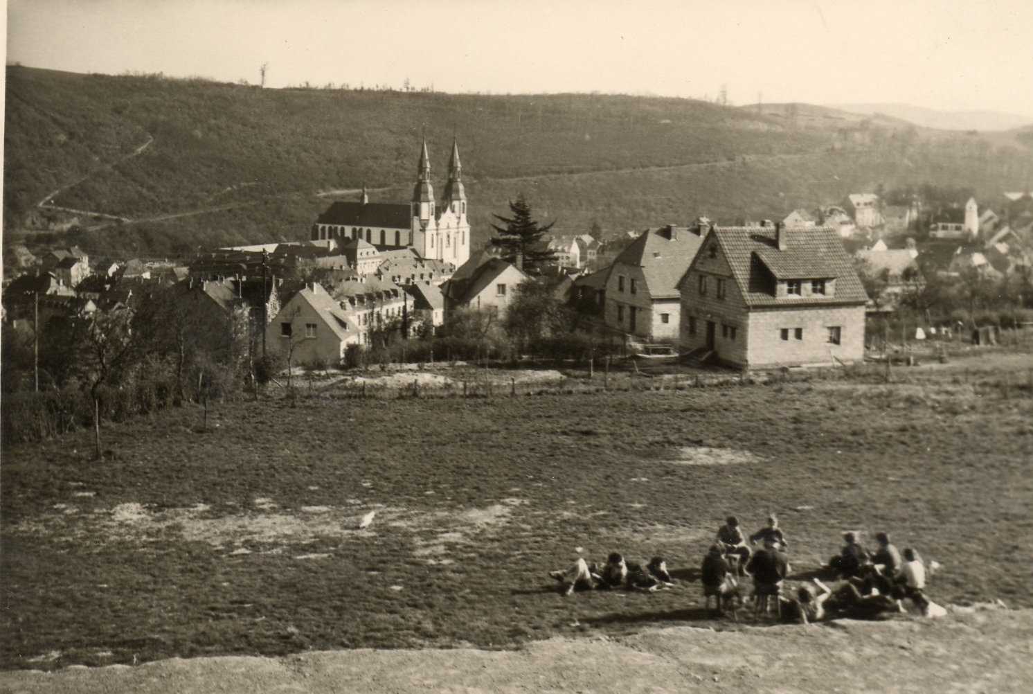 Prüm, about 1957